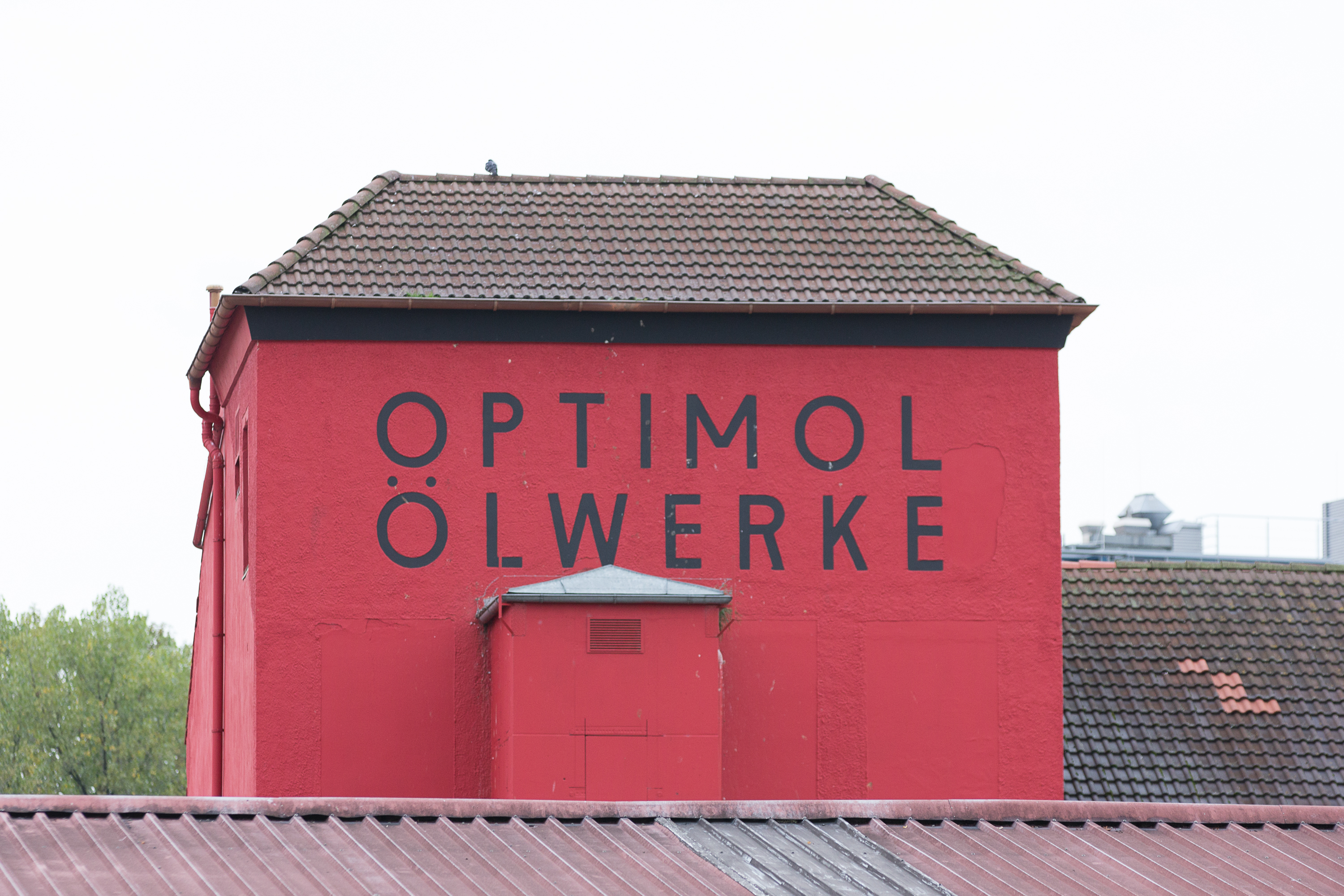 The tower in Optimolwerke in 2012. Аҧсшәа: Der Turm in den Optimolwerken im Jahr 2012.